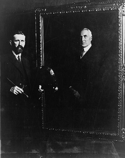 Painter Edmund Hodgson Smart standing next to his portrait of U.S. President Warren Gamaliel Harding.